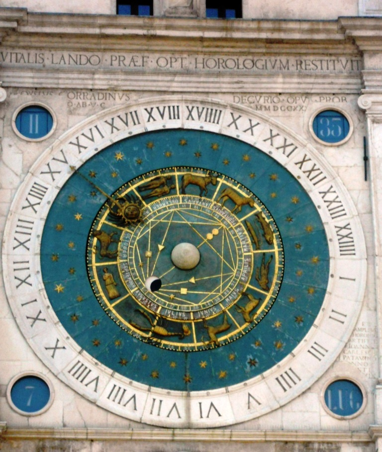 Padua Pal Capitaneo, clock dial